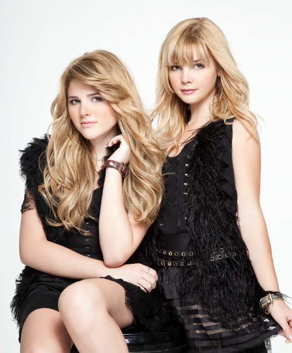 A photo of Interscope Recording Artist Destinee and Paris Monroe